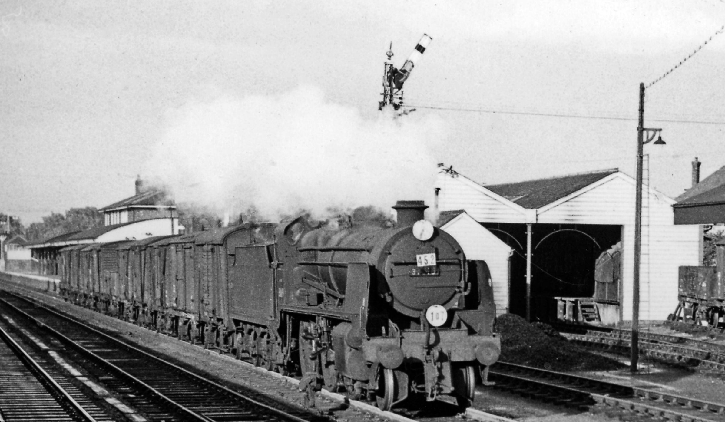 Down freight passing Andover Junction. View eastward from an Up train, towards Basingstoke and London: ex-LSWR West of England main line and junction with the Midland & South-Western Junction line from Cheltenham via Swindon and the ex-LSW line on to Southampton via Romsey. The short Down main-line freight passing the goods station is headed by Maunsell U class 2-6-0 No. 31619 (built 12/28, withdrawn 12/65).